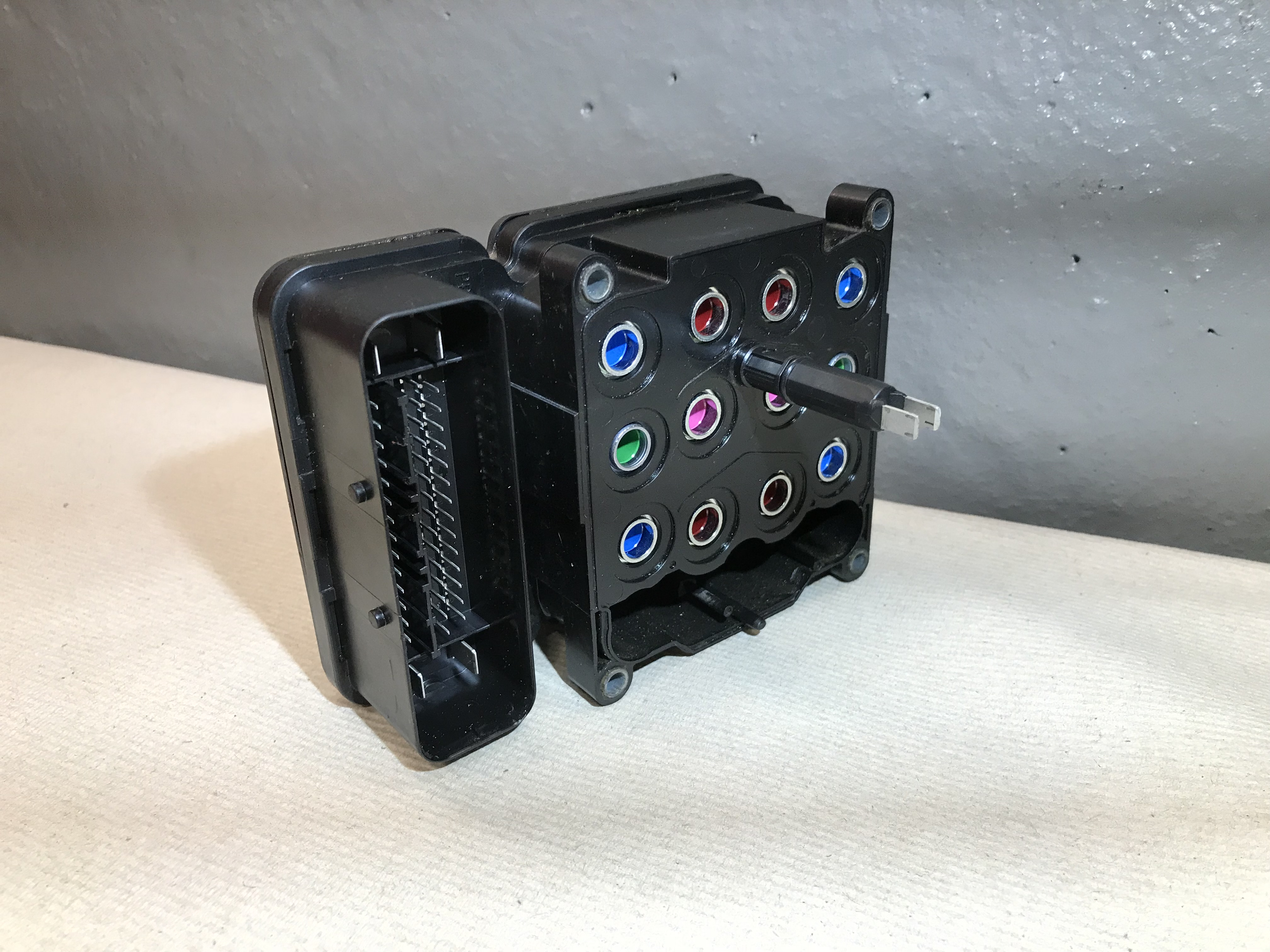 Photo of an ABS module